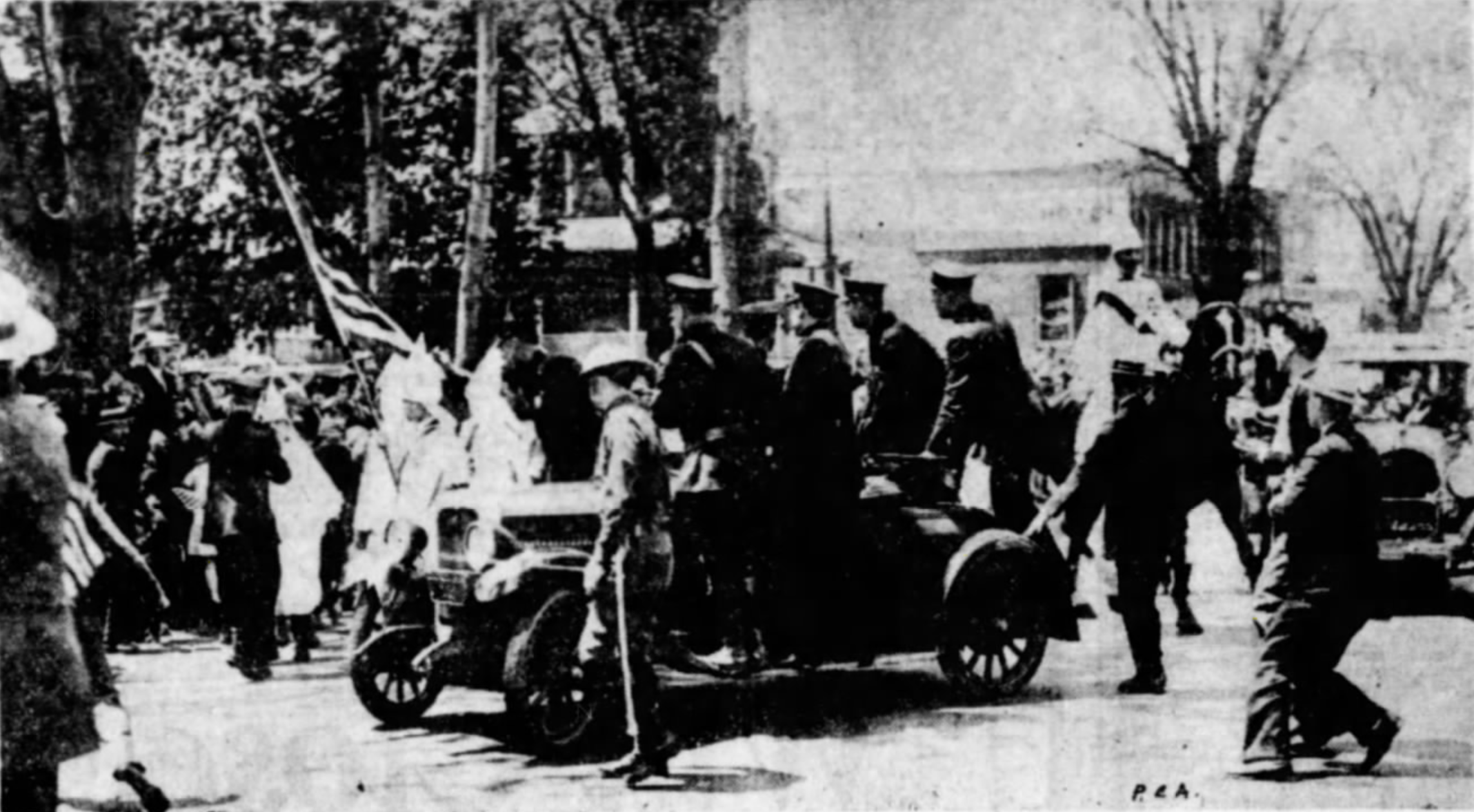 Photograph of police confronting Ku Klux Klan members in Queens on Memorial Day 1927, published in the Brooklyn Daily Eagle